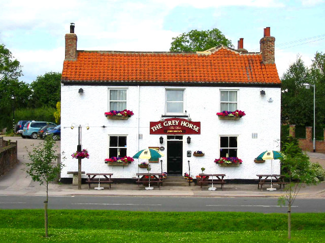 The Grey Horse Inn, Elvington. The Only Public House in the small village of Elvington, North Yorkshire. Offers fine cask ales, good food and accommodation. The Centre of Village Life